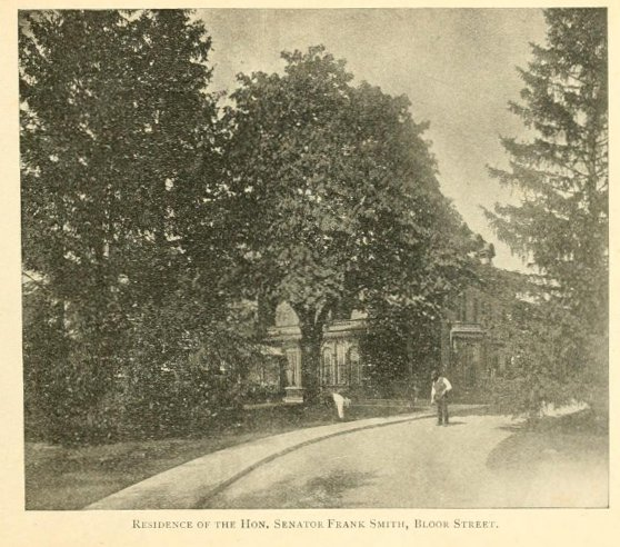 Screen capture taken from the work cited. Shows the residence of the Hon. Senator Frank Smith, Bloor Street, Toronto, Ontario, Canada.